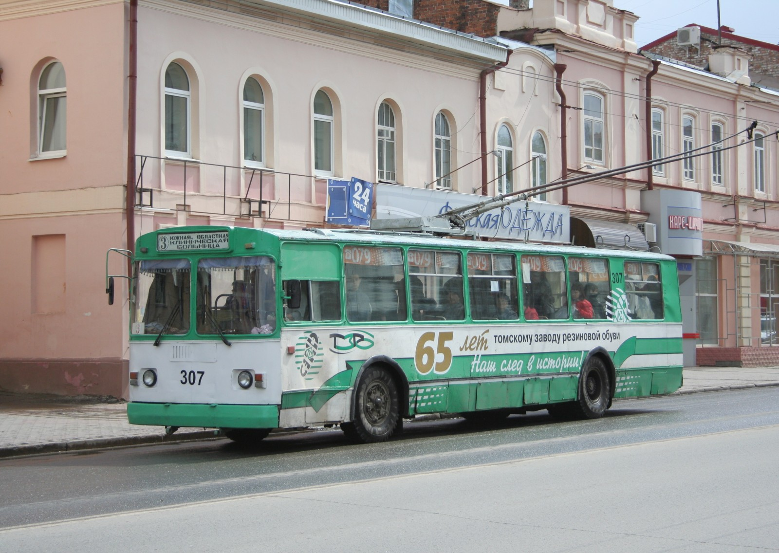 Tomsk trolleybus ZiU-682G No. 307. Lenin Avenue.